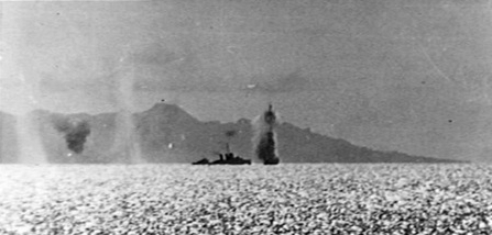 The U.S. Navy destroyer USS Mugford (DD-389) under Japanese air attack off Guadalcanal, 7 August 1942. She sustanied three near misses and one bomb hit but shot down two of her attackers. She suffered eight killed, 17 wounded, and 10 missing.